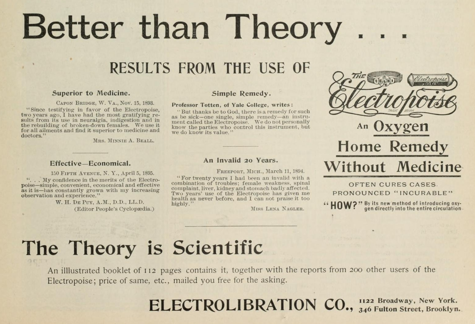 Fake medical device ad - Electropoise